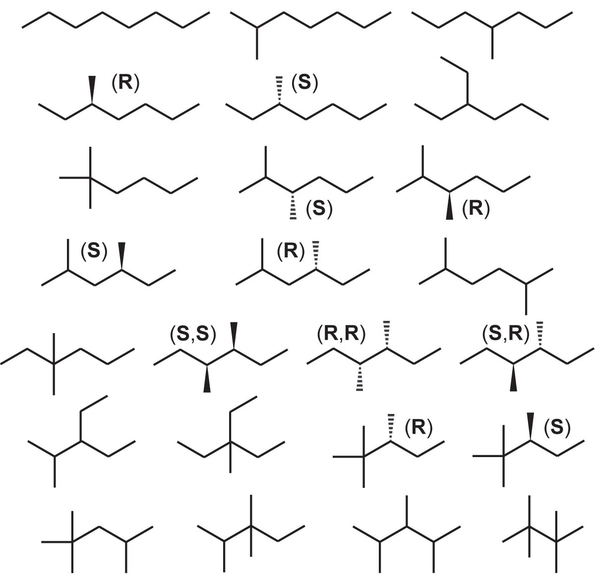 C8H18 isomers with absolute configuration of chiral octanes determinations